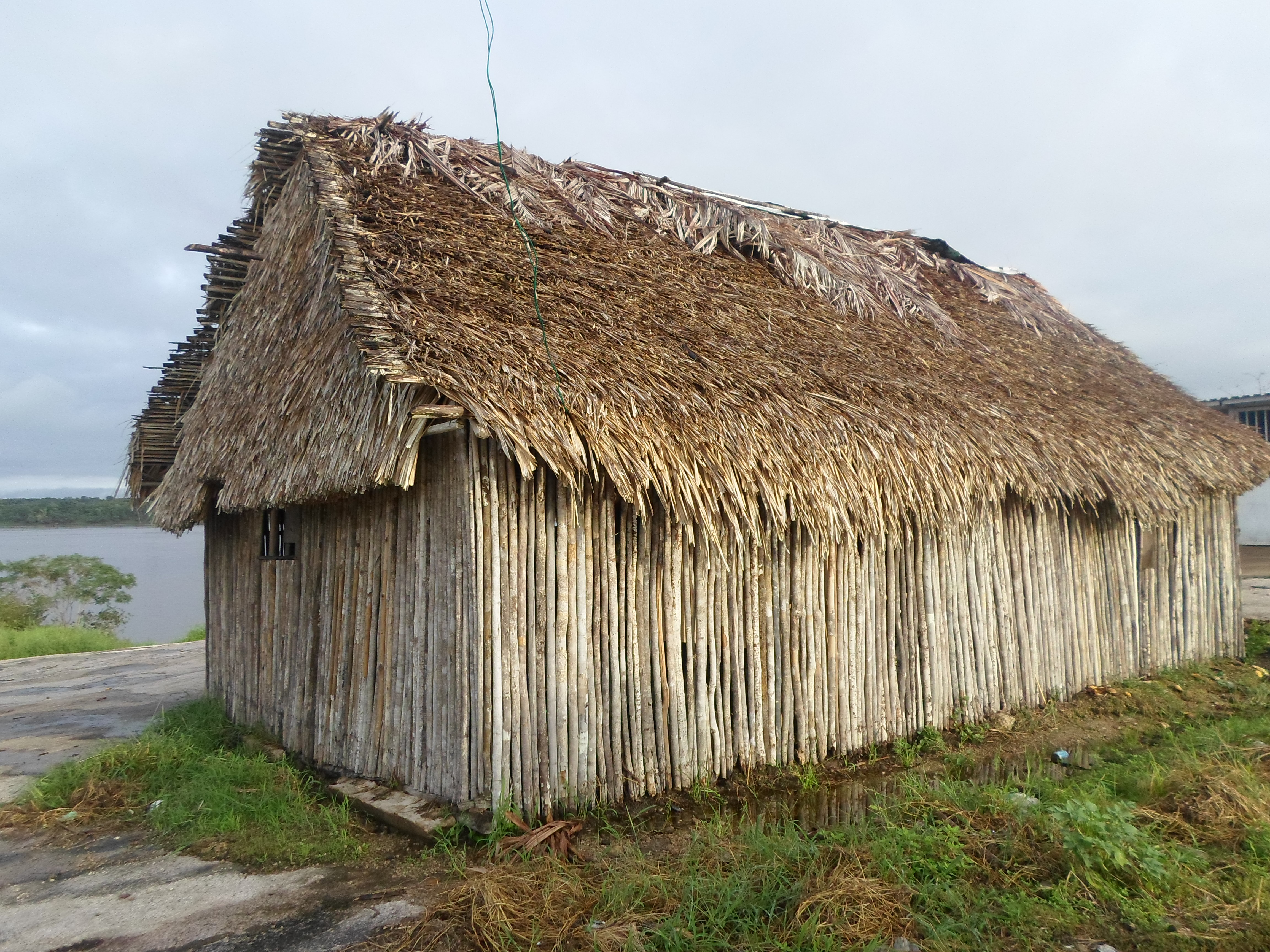 traditionnal Piaroa hut in Puerto Nuevo, Amazonas, Venezuela.